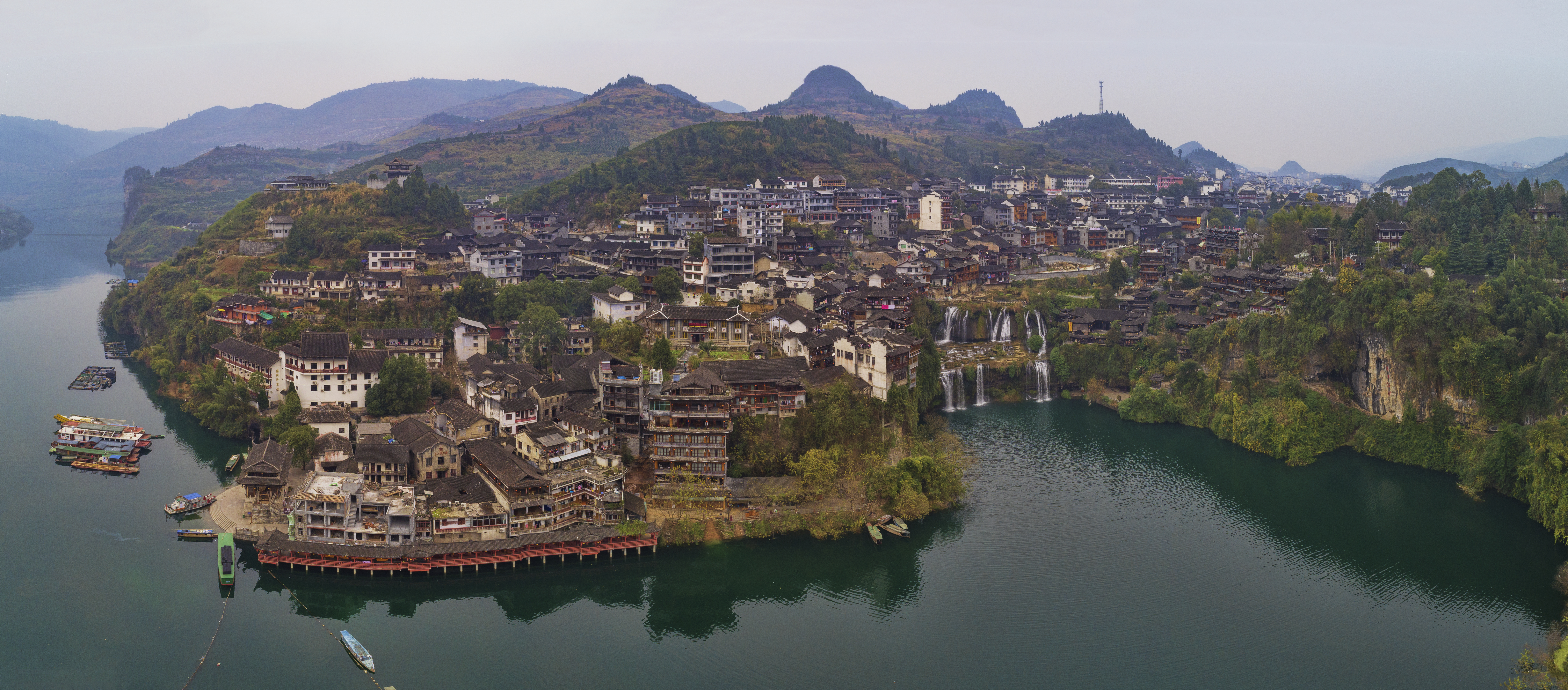 furong ancient town aerial panorama 2017 hunan china